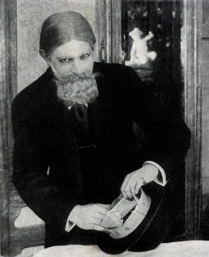 Screenshot from the film Fantômas by Louis Feuillade